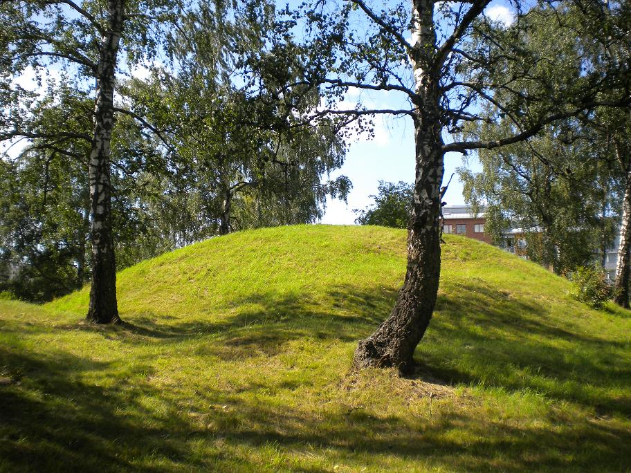 Tumulus called the King’s Mound Kungshögen and King Agni’s Mound Kung Agnes hög near the local train stationPlace: Sollentuna, Sweden